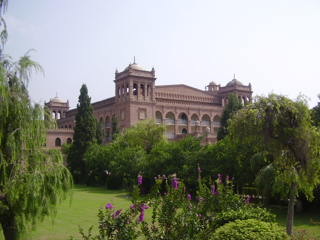 Takbeer Block of Islamia College Peshawar